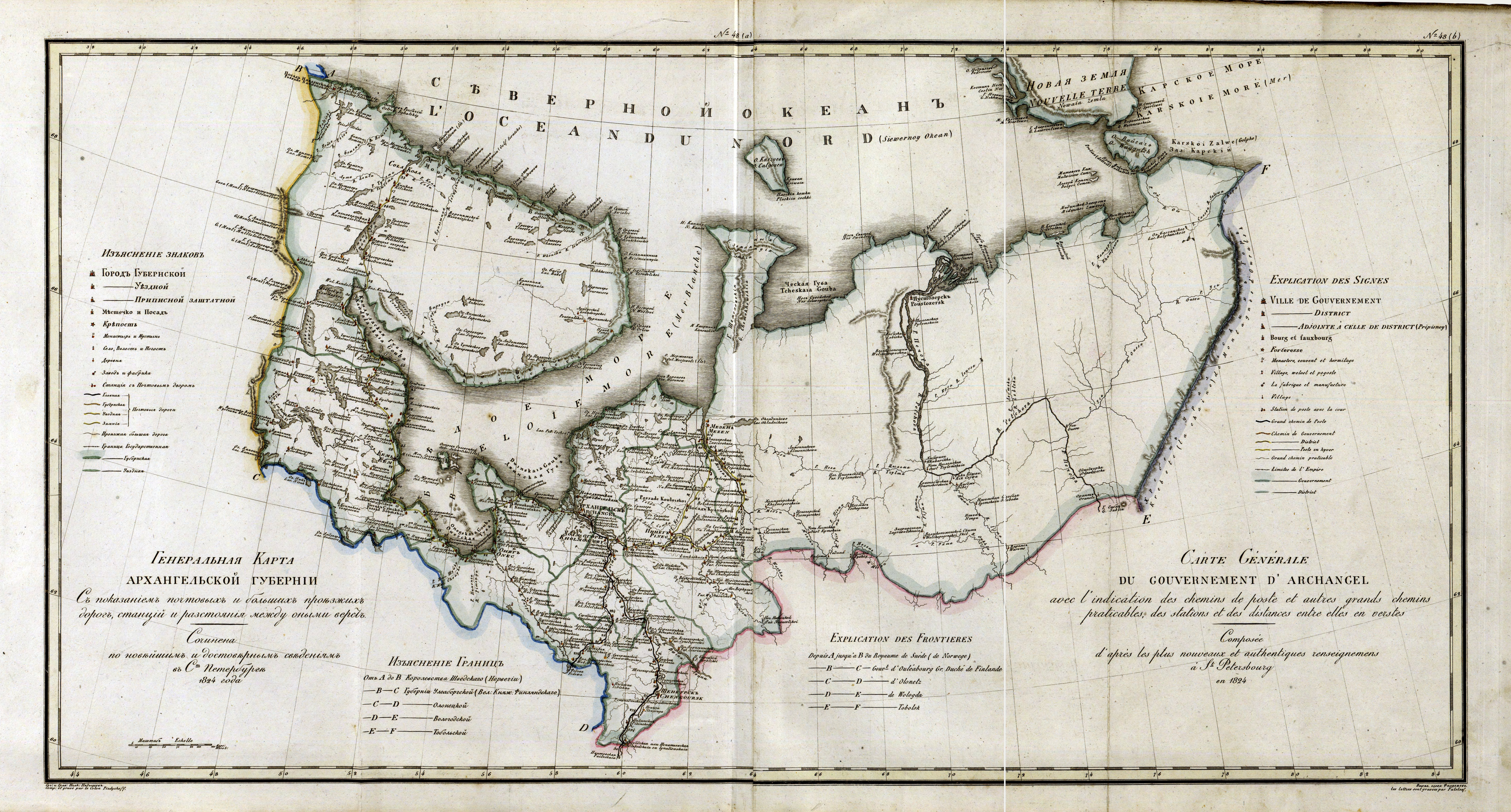 Arkhangelsk Governorate